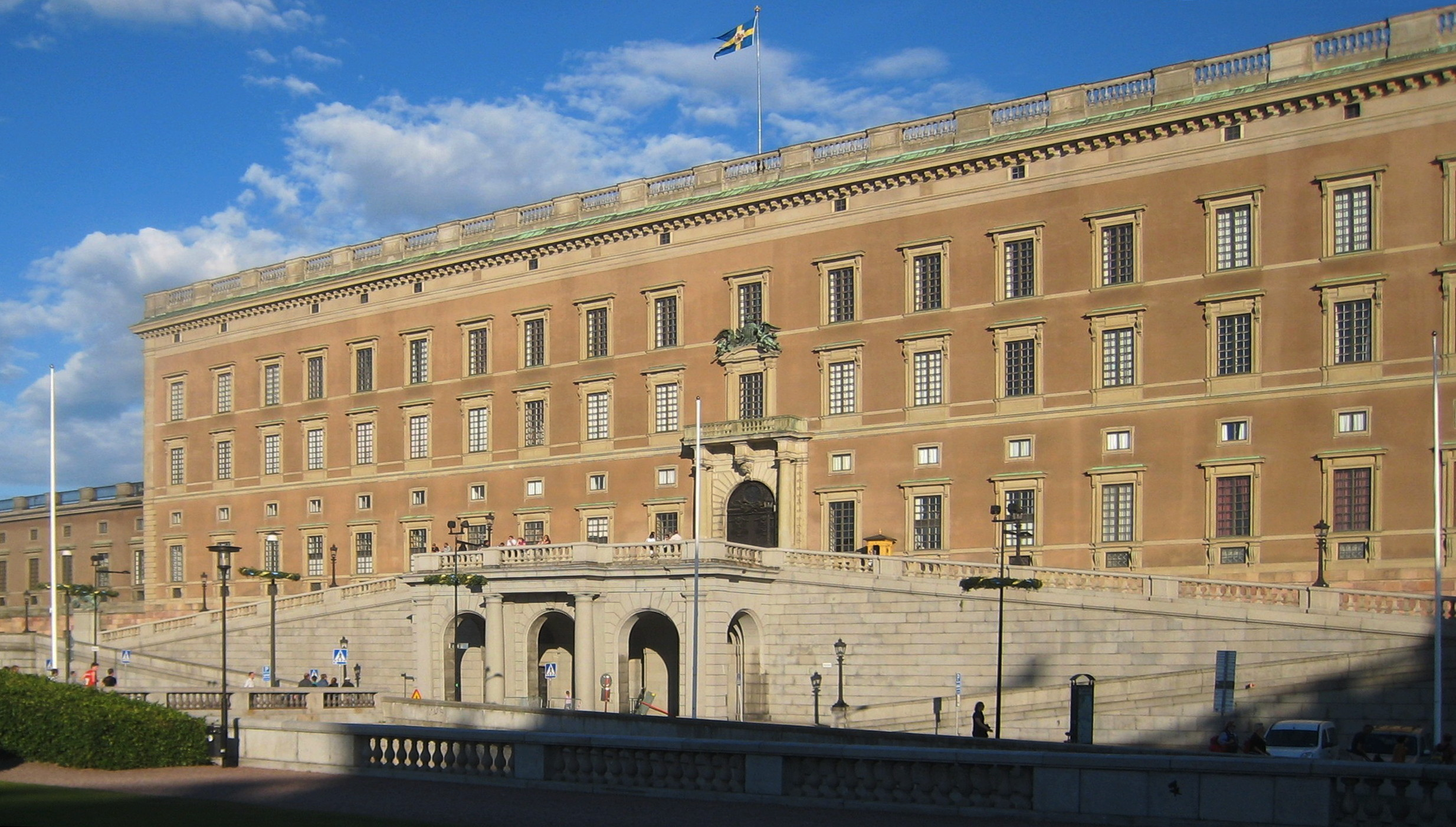 Lejonbacken